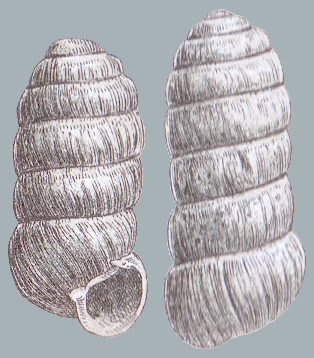 Columella columella - scanned and improved by Tom Meijer